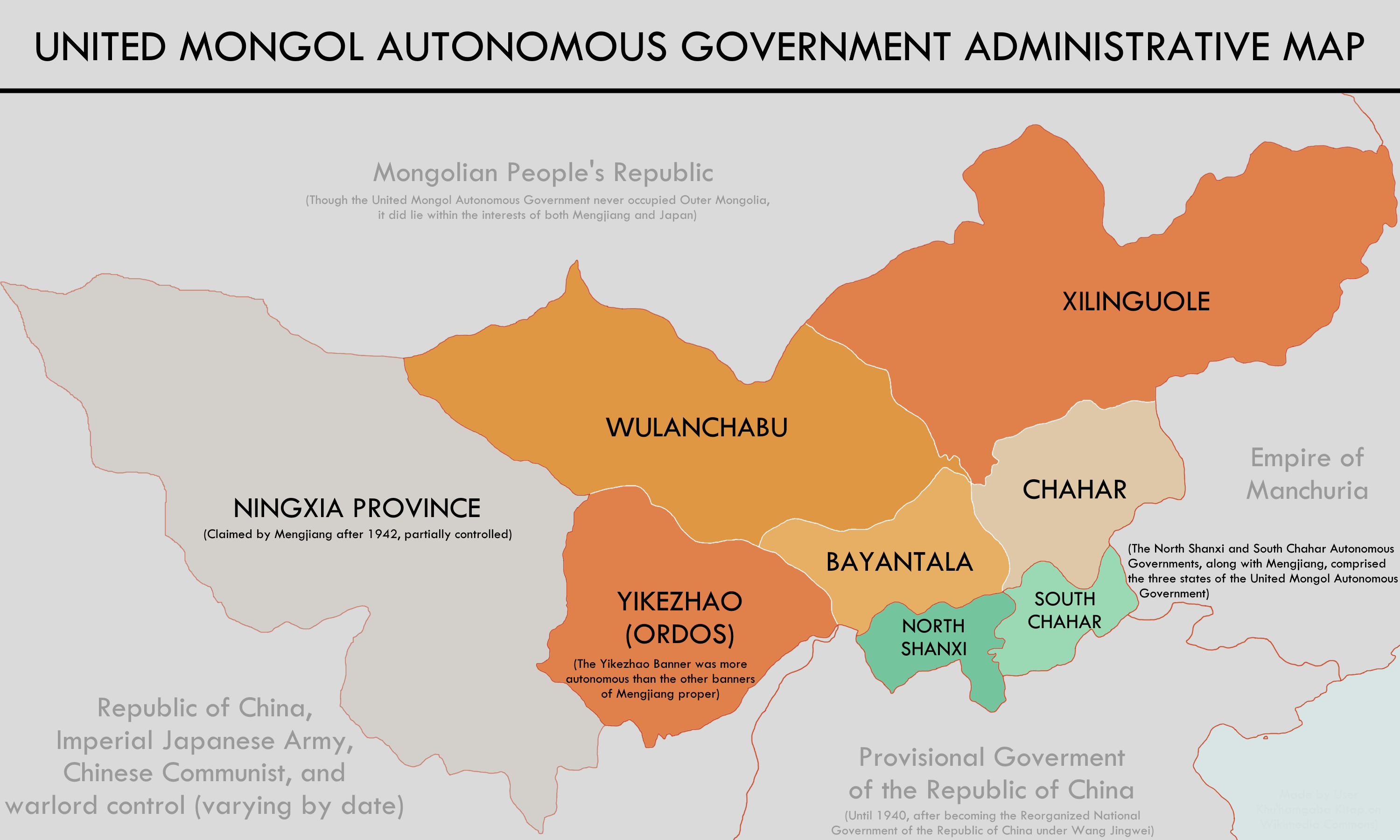 A map of the United Mongol Autonomous Government (Mengjiang) including its provinces, territorial claims, and associated states. The information for this map is mostly from here ( and here (File:Mengjiang,_North_Shanxi,_South_Chahar_Map_-_Circa_1937-1939.png), which was used to create this map. The names and borders of the provinces are from this link (File:Mengjiang,_North_Shanxi,_South_Chahar_Map_-_Circa_1937-1939.png), which is a map of Mengjiang that I already uploaded.